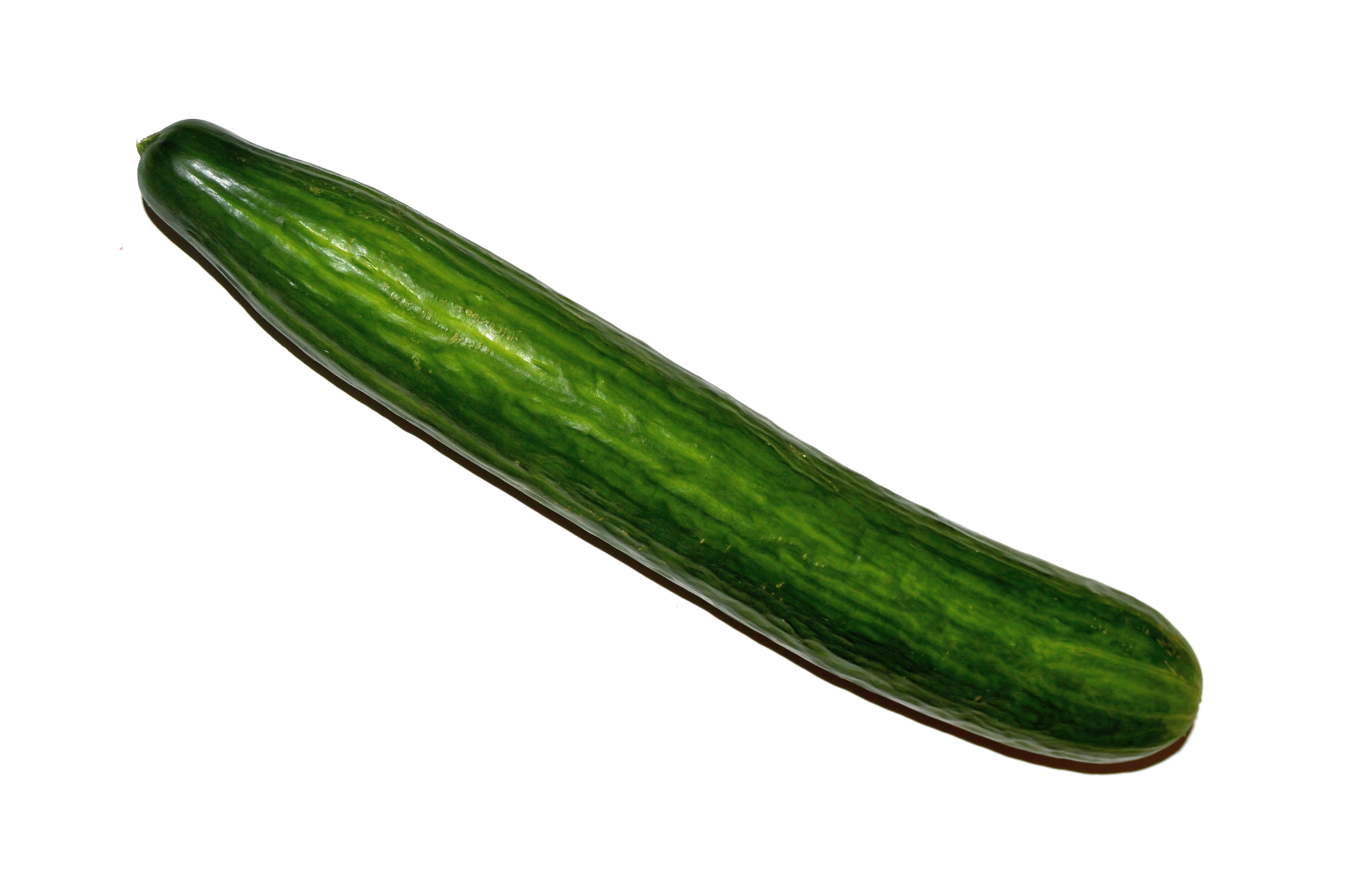 Danish cucumber